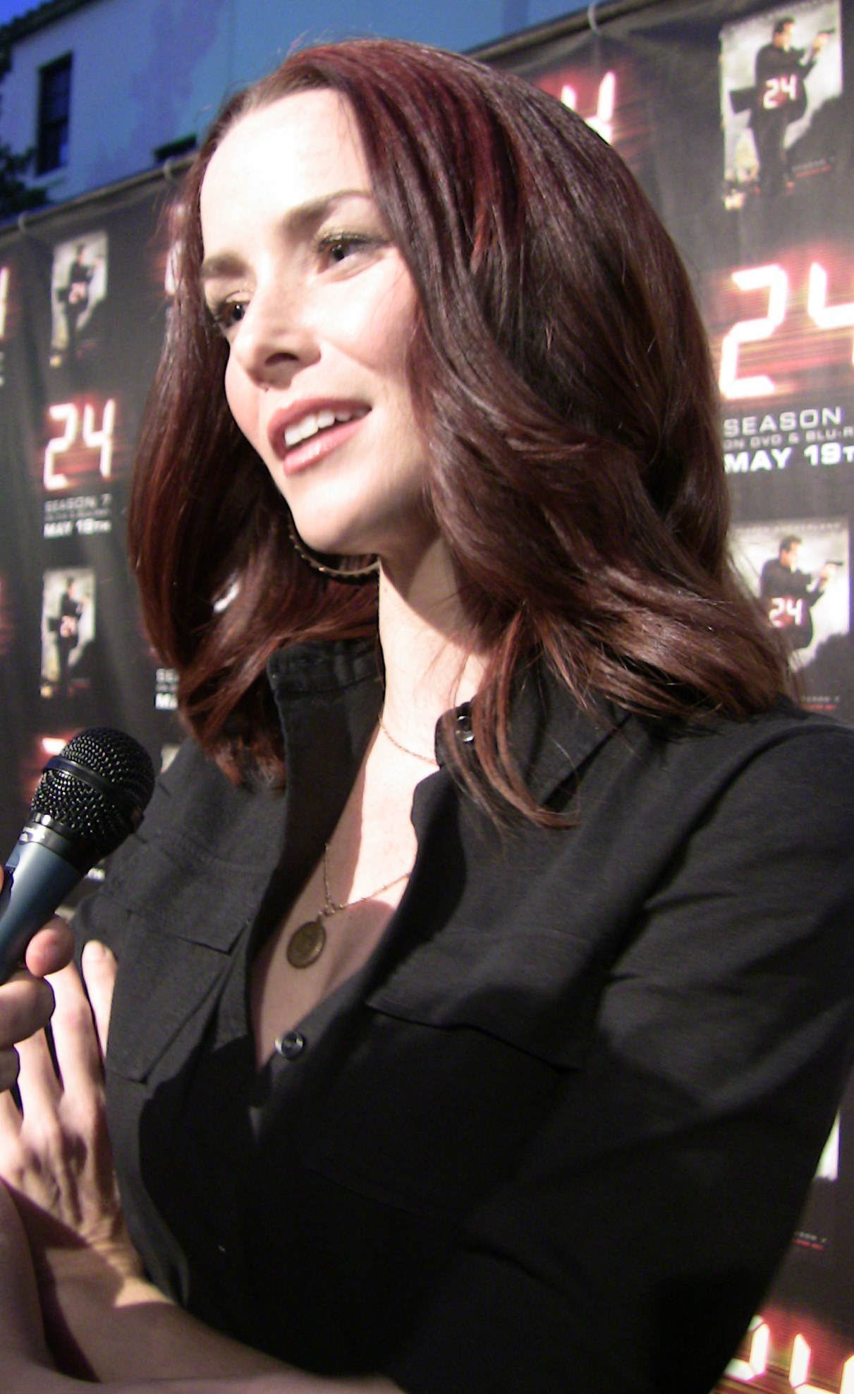 Actress Annie Wersching at TV series 24's season 7 finale screening at Wadsworth Theatre, Los Angeles, California.